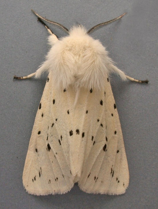 Spilosoma lubricipeda, White Ermine, Trawscoed, North Wales, June 2005